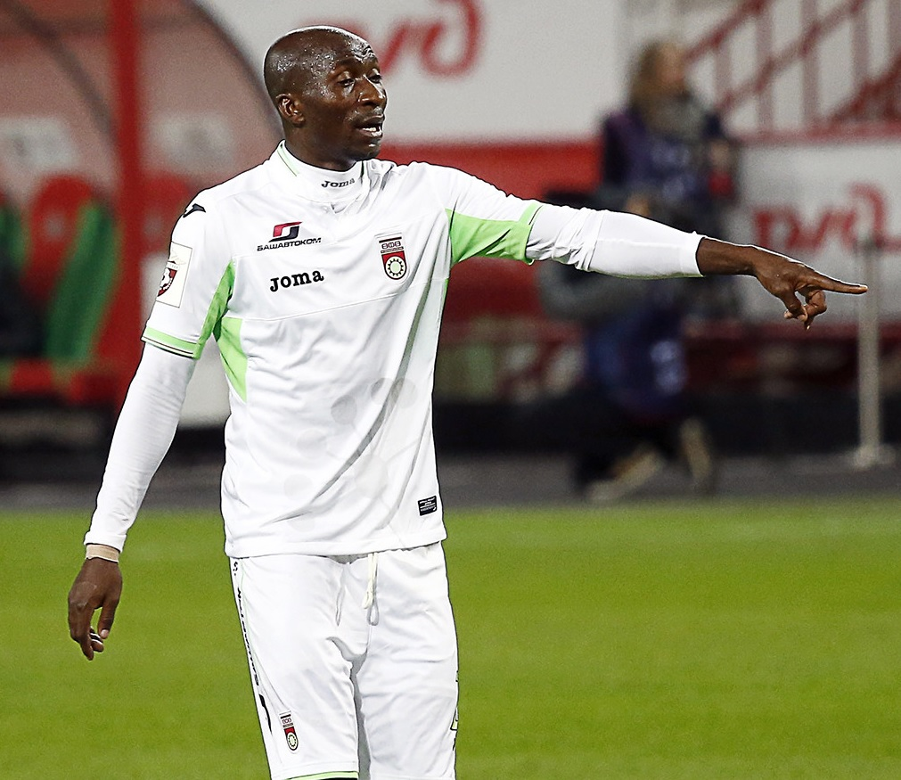 Kehinde Fatai with FC Ufa in a game against FC Lokomotiv Moscow.